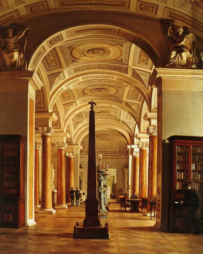 Alexey Tyranov. View on the Hermitage Library. 1827. Oil on canvas. The Hermitage, St. Petersburg, Russia.